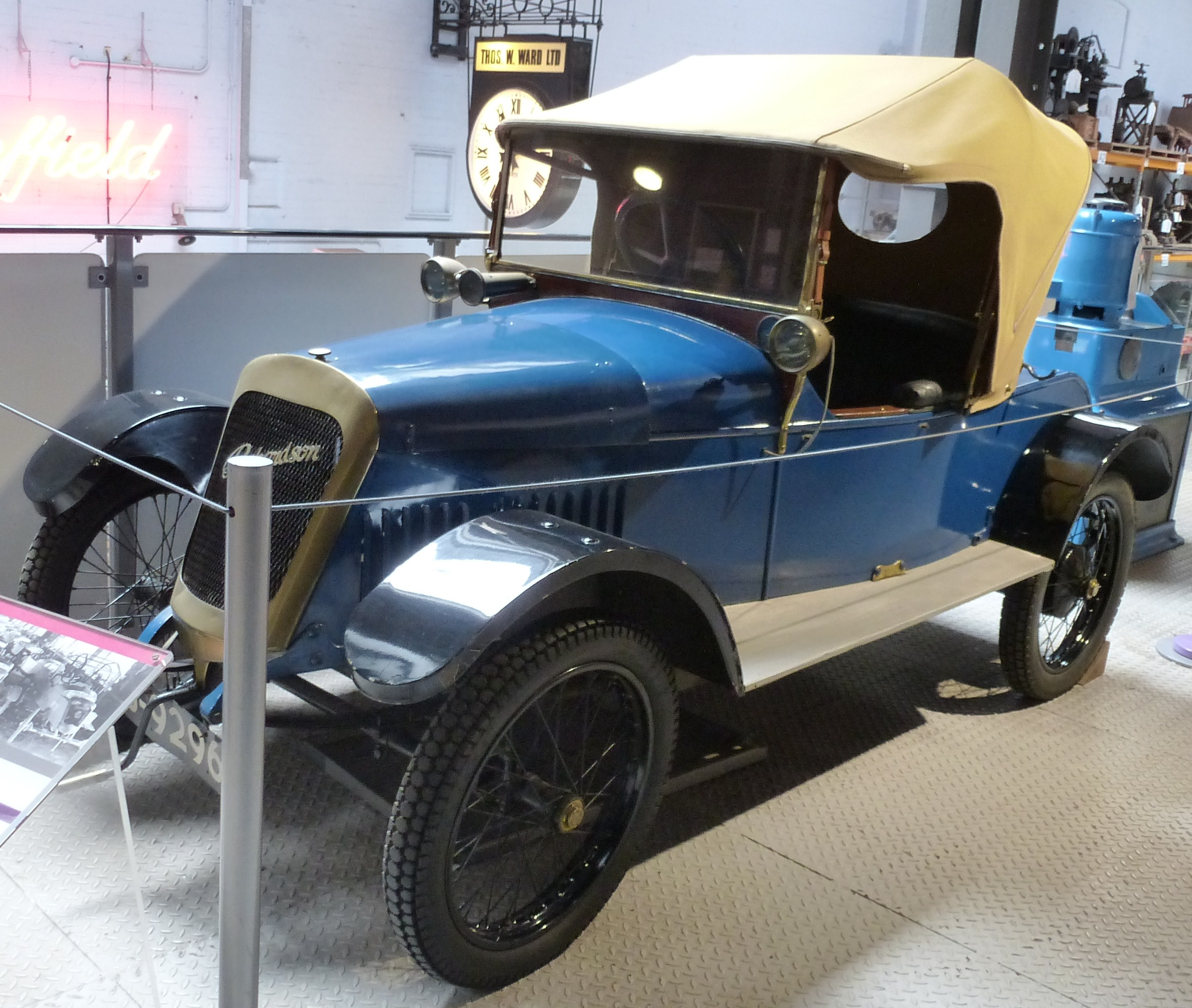 Richardson 10 HP 1921